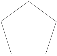 A simple pentagon built using the correct geometrical techniques within Geogebra. The scaffolding does not appear. This PNG graphic was created with GeoGebra.